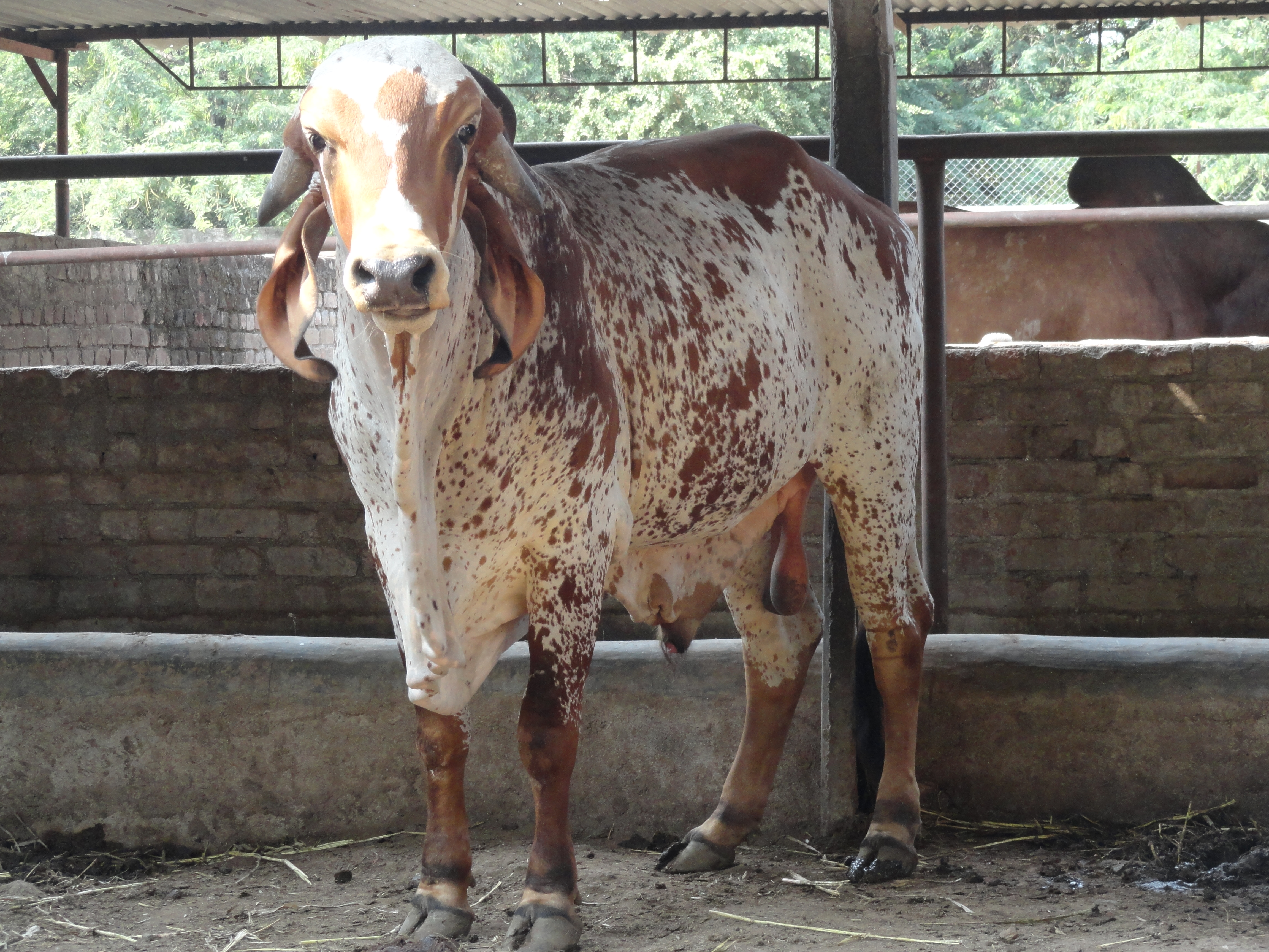 This is original gir bull